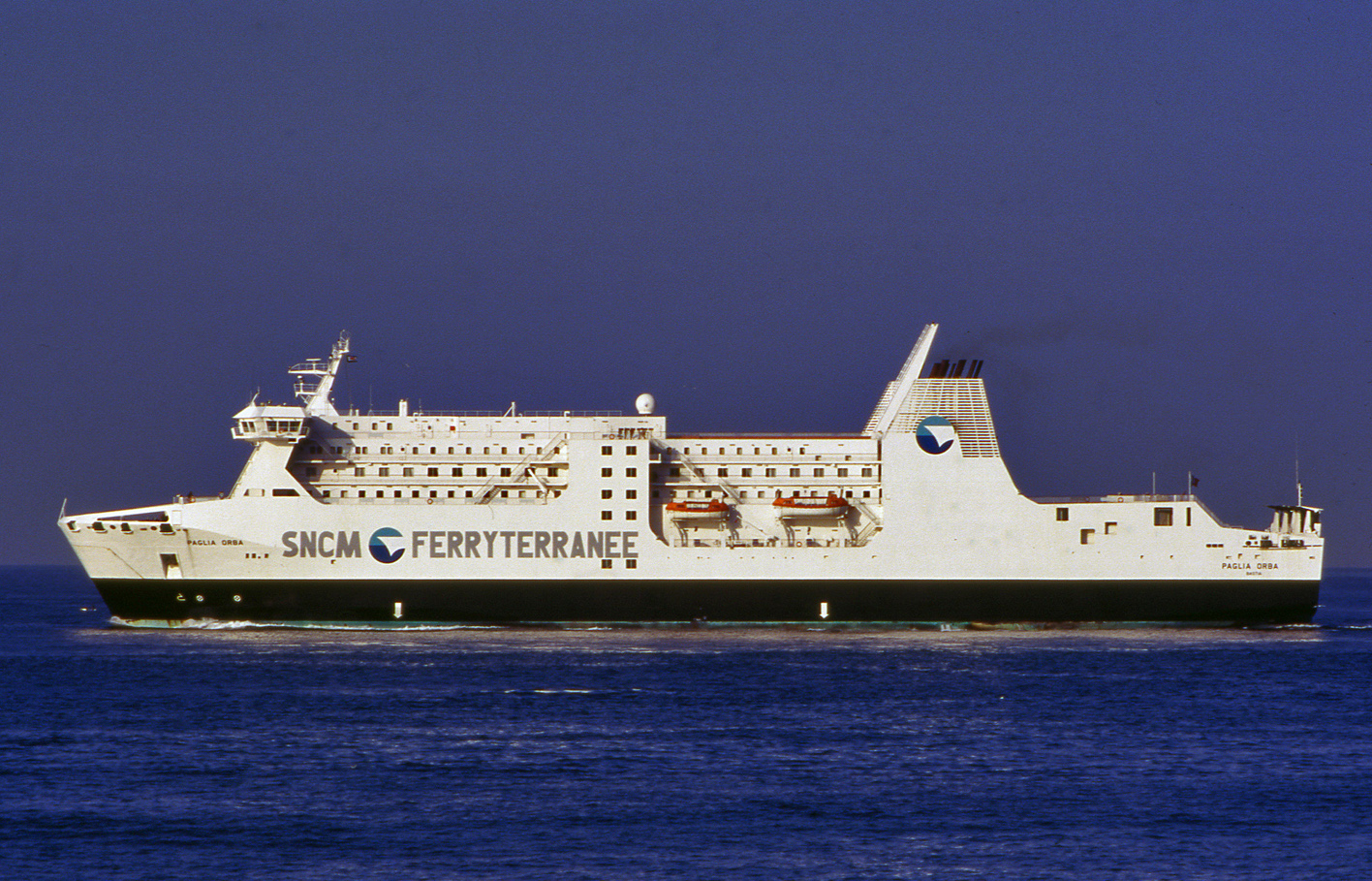 Paglia Orba in Genova, 1995.